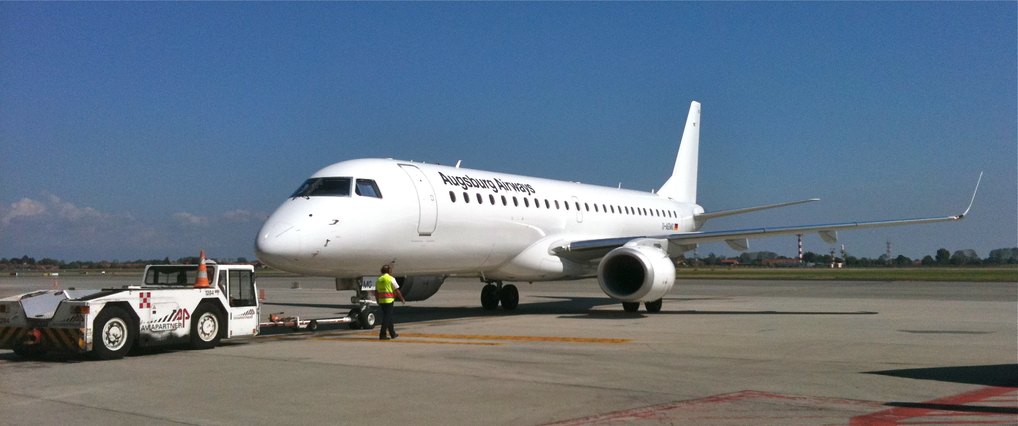 Augsburg Airways, Embraer 190